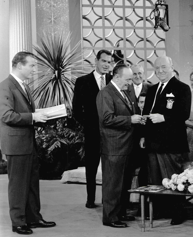 Photo of William Frawley as the subject of the television program This Is Your Life. In this photo, show host Ralph Edwards holds the book; Fred MacMurray is seen standing next to him. Angels' (baseball) manager Fred Haney is shown presenting Frawley with a lifetime pass to the team's games.